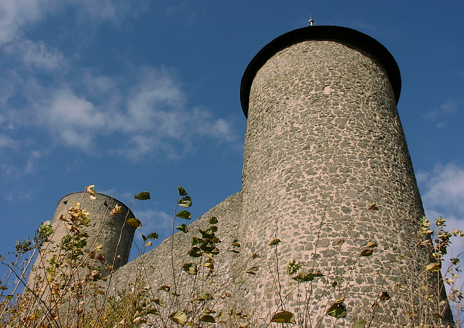 Tower of the Nürburg, a ruined castle in Rhineland-Palatinate, Germany